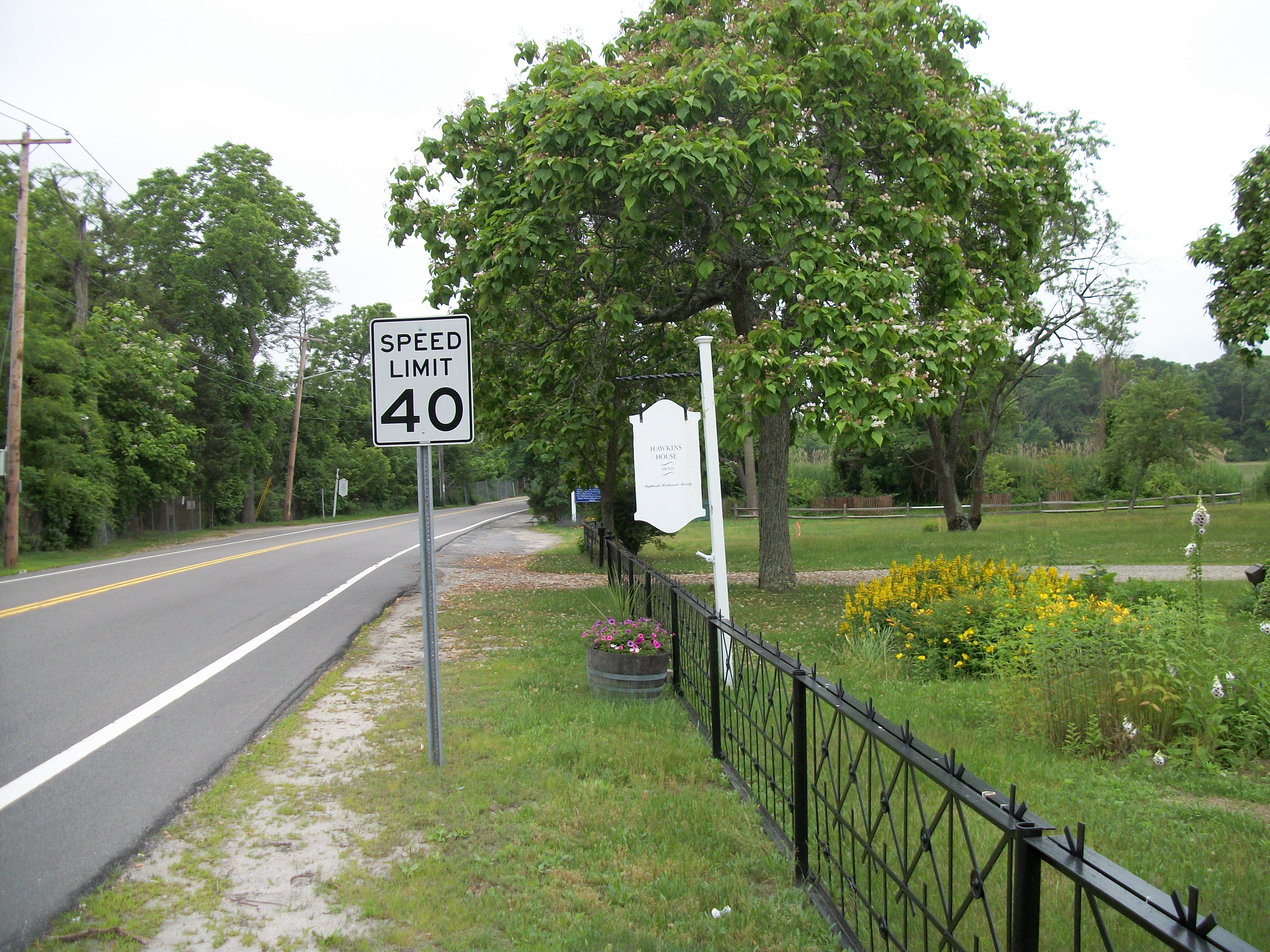 Southbound view of the sign for the historic Robert Hawkins Homestead on Yaphank Avenue in Yaphank, New York. No, not the Speed Limit sign next to it.